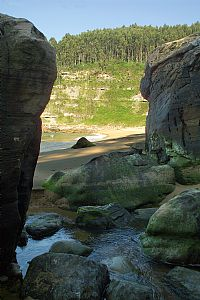 Merón Beach at Villaviciosa, Principado de Asturias, Spain